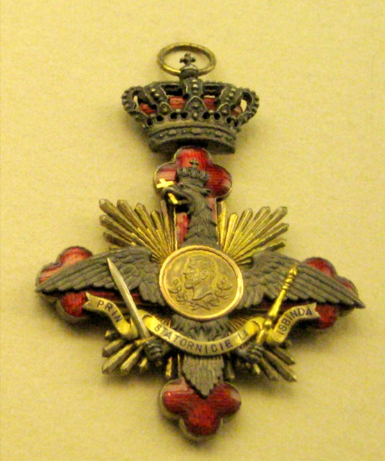 Order of Carol I, badge of 1st class, early 20th c.